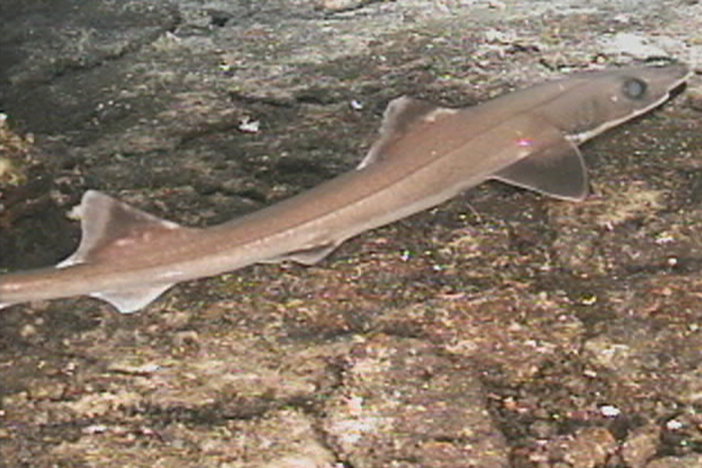 Slender smooth-hound (Gollum attenuatus) at 550 m depth on the Macauley Seamount, New Zealand (from FishBase).